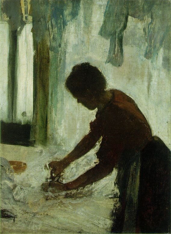 Laundress